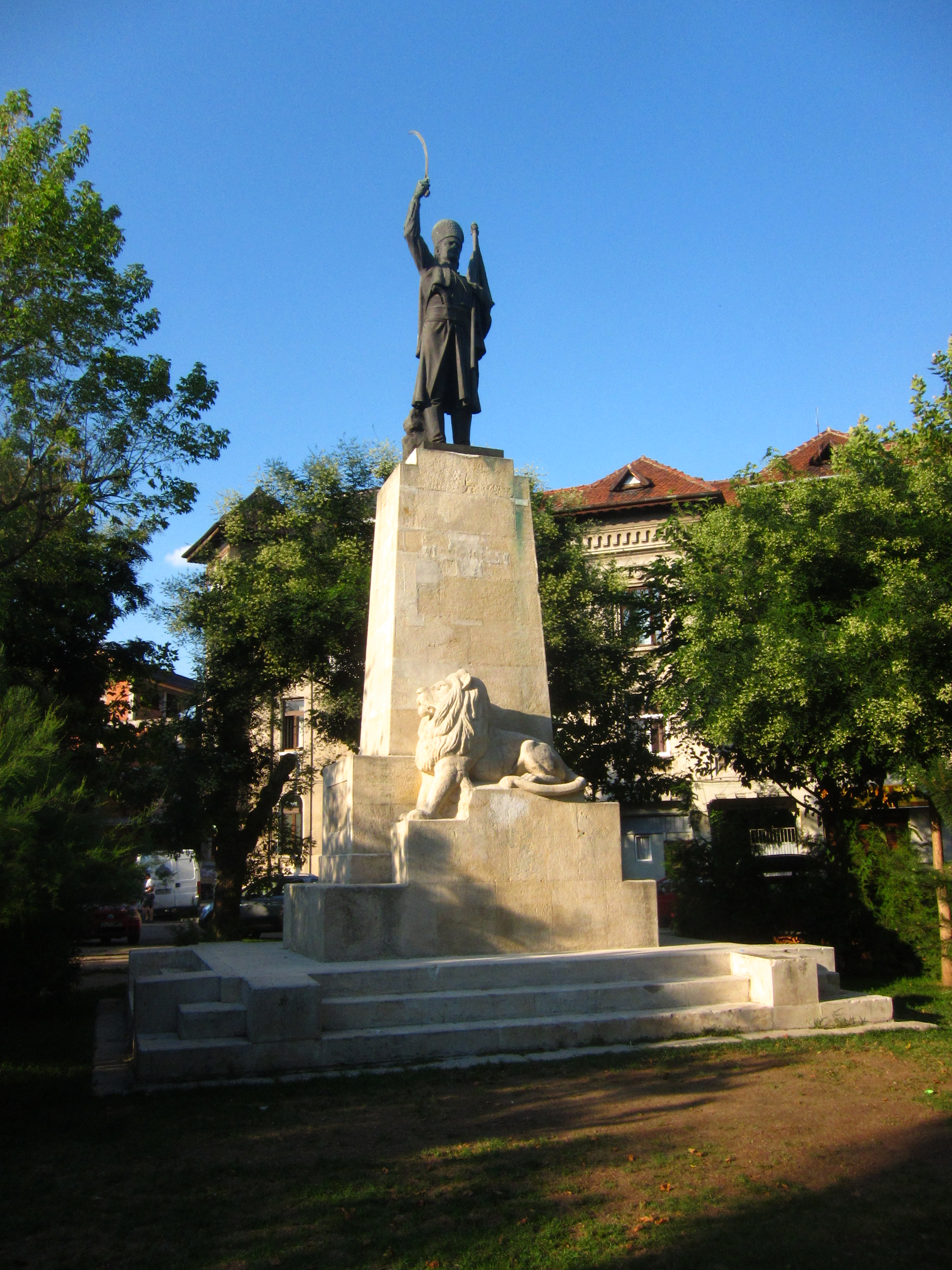 Statue of Tudor Vladimirescu on Mihai Eminescu street, Bucharest, RomaniaRomână: Statuia lui Tudor Vladimirescu de pe strada Mihai Eminescu, București, România